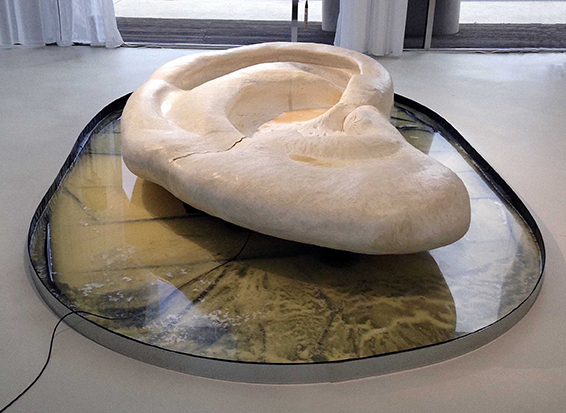 "The ear which falls away", sculpture-installation work in progress, soap of Marseille, tarpaulin PVC, water, micro-irrigation, metal, quadraphonic sound diffusion